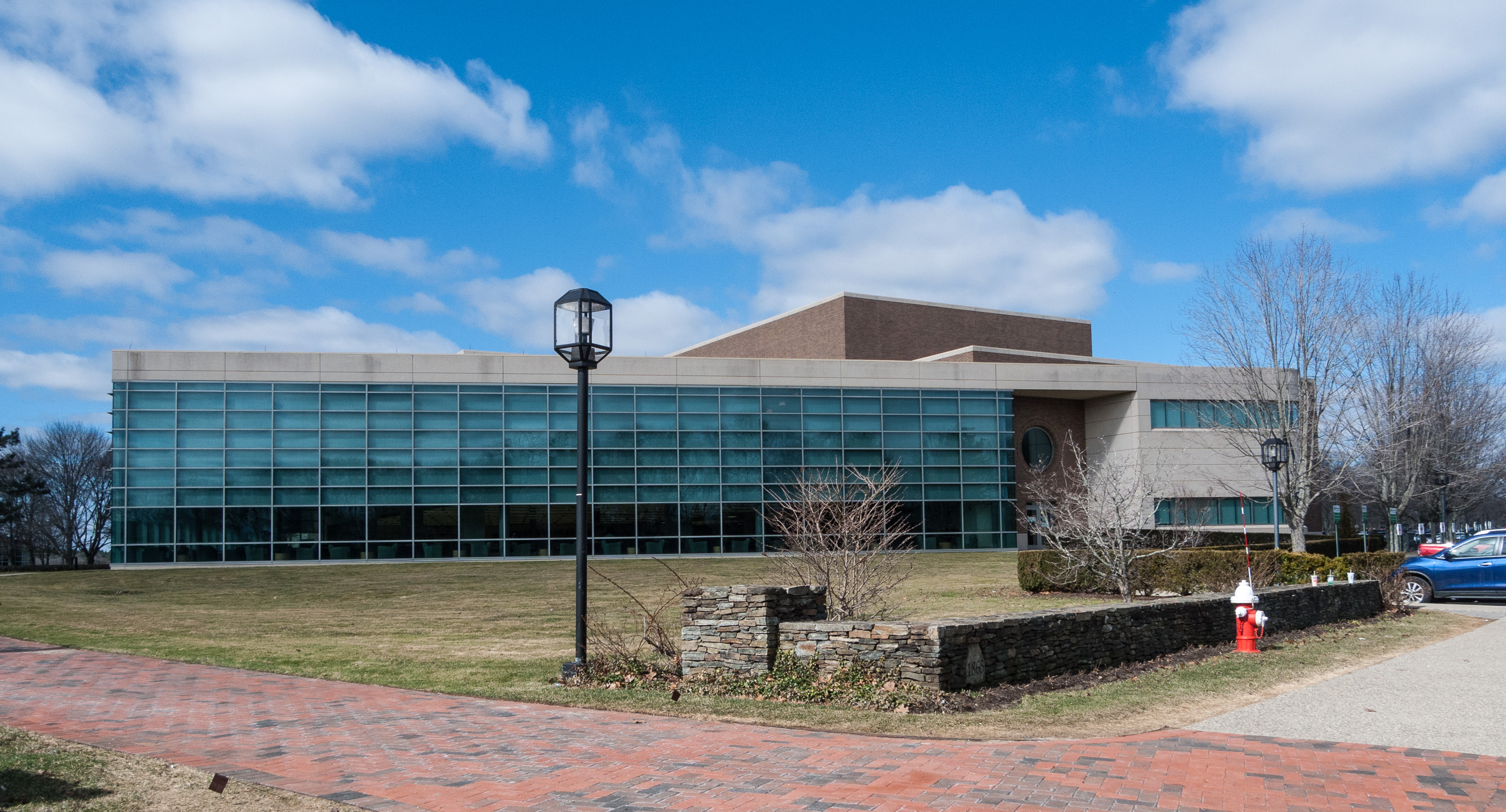 Bryant University, Smithfield, Rhode Island